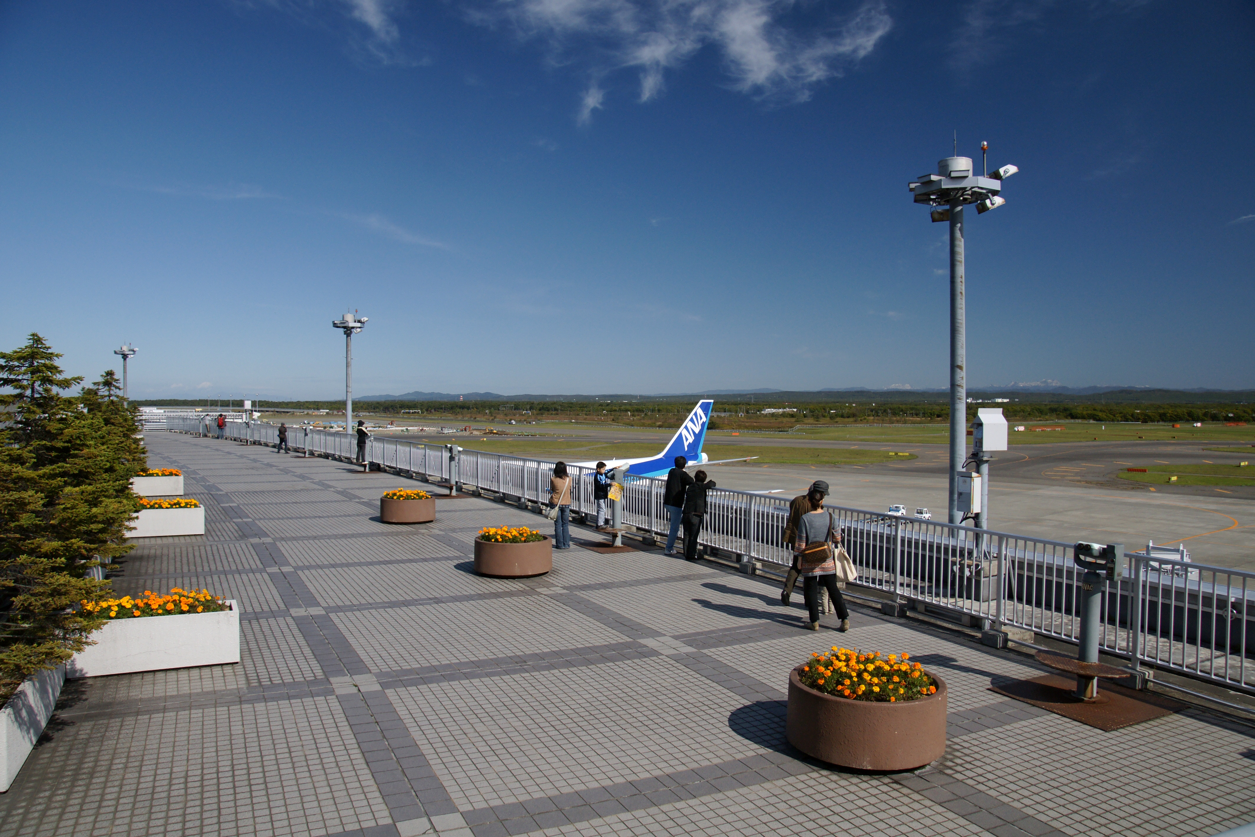 New Chitose Airport, Chitose, Hokkaido prefecture, Japan